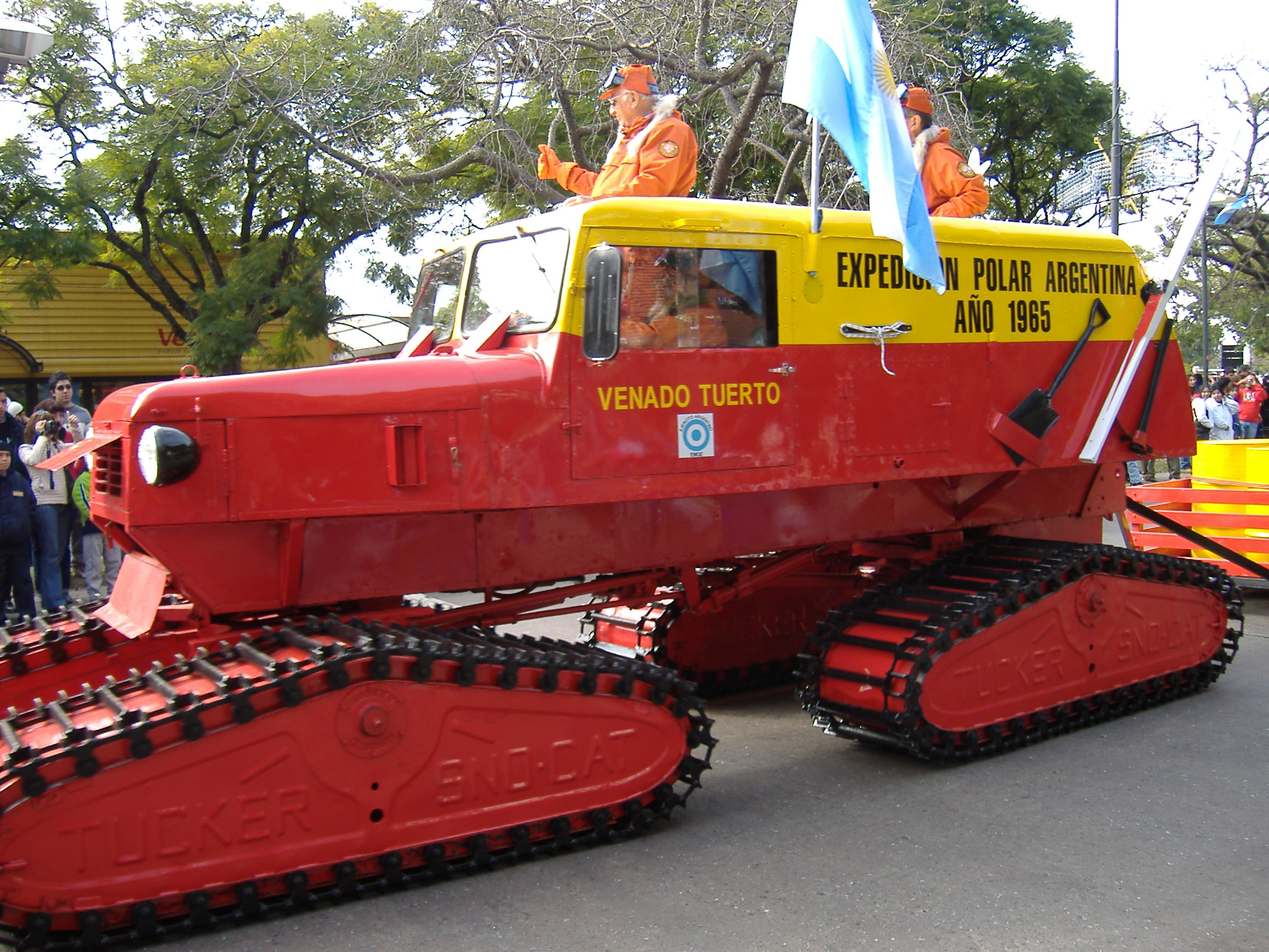 The continuous track employed by the first Argentine expedition that reached the geographic South Pole, on 10 December 1965, restored and rolling during the parade of Flag Day (20 June) 2006, in Rosario, Argentina